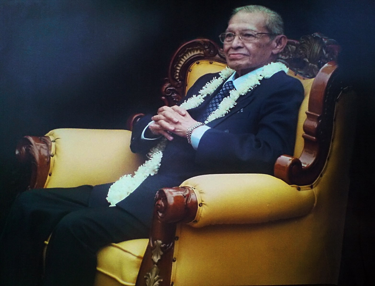 Hasan Tiro